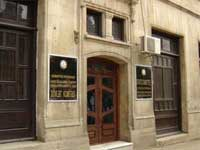 Diasporla İş üzrə Dövlət Komitəsi xaricdə yaşayan azərbaycanlılarla iş üzrə dövlət komitəsidir